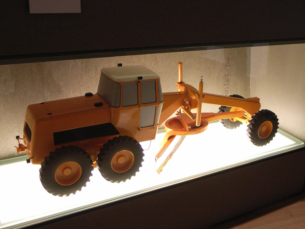 Farming vehicle at HfG Exhibition, Ulmer Museum